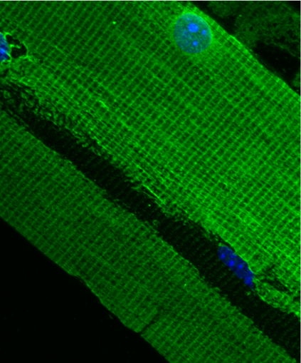 Longitudinal cryosection of quadriceps from 7 month old mice stained with Rabbit 2 polyclonal antibody to dystrophin. Nuclei are stained with hematoxylin (blue). Image width ca. 80 μm. Cropped from